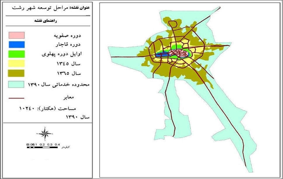 Rasht map in different ages